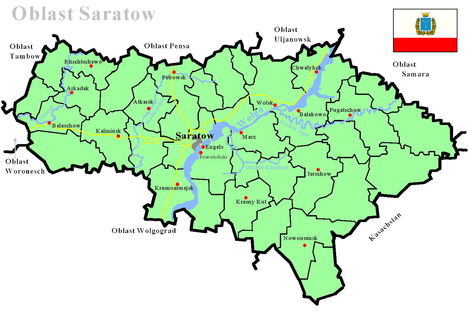 map of the Saratov Oblast, including Raions, Cities, Rivers and Highways